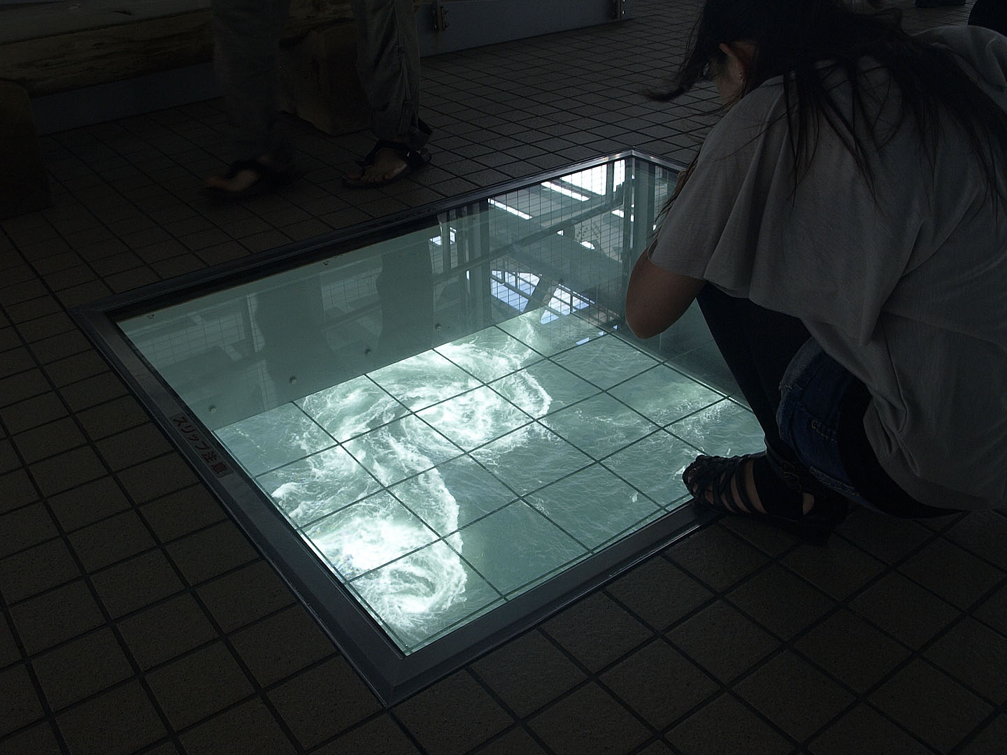 The Naruto whirlpools of the Naruto strait, view from the Uzunomichi, the walkway under the Oh-naruto Bridge, Tokushima, Japan.